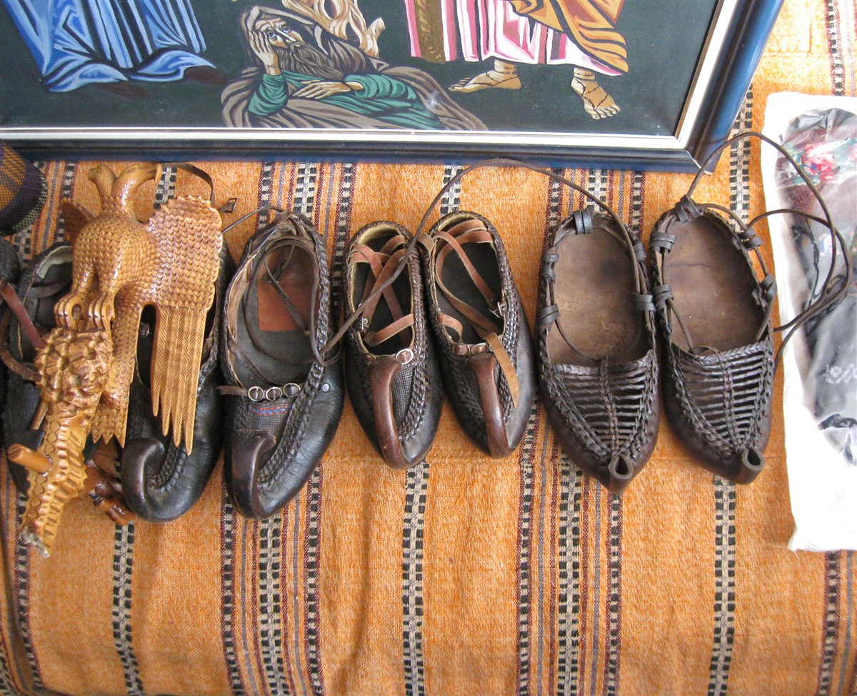 Project "Dicovering Pester" (Projekat "Otkrivanje Peštera"). Sunny winter landscape on the Pester plateau, in Serbia, with snow on mountain slopes and fields , villages and streams.